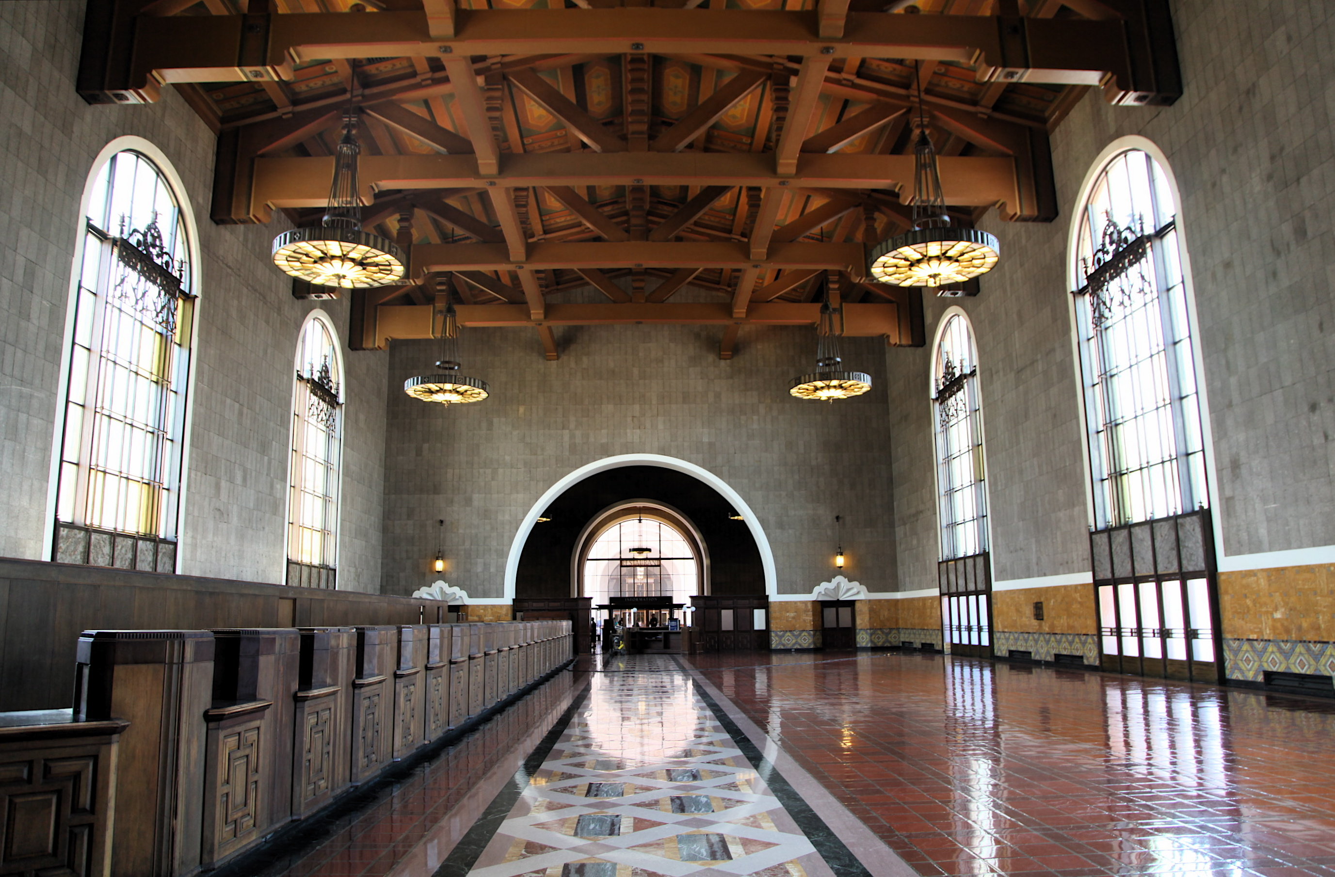 Los Angeles Union Passenger Terminal